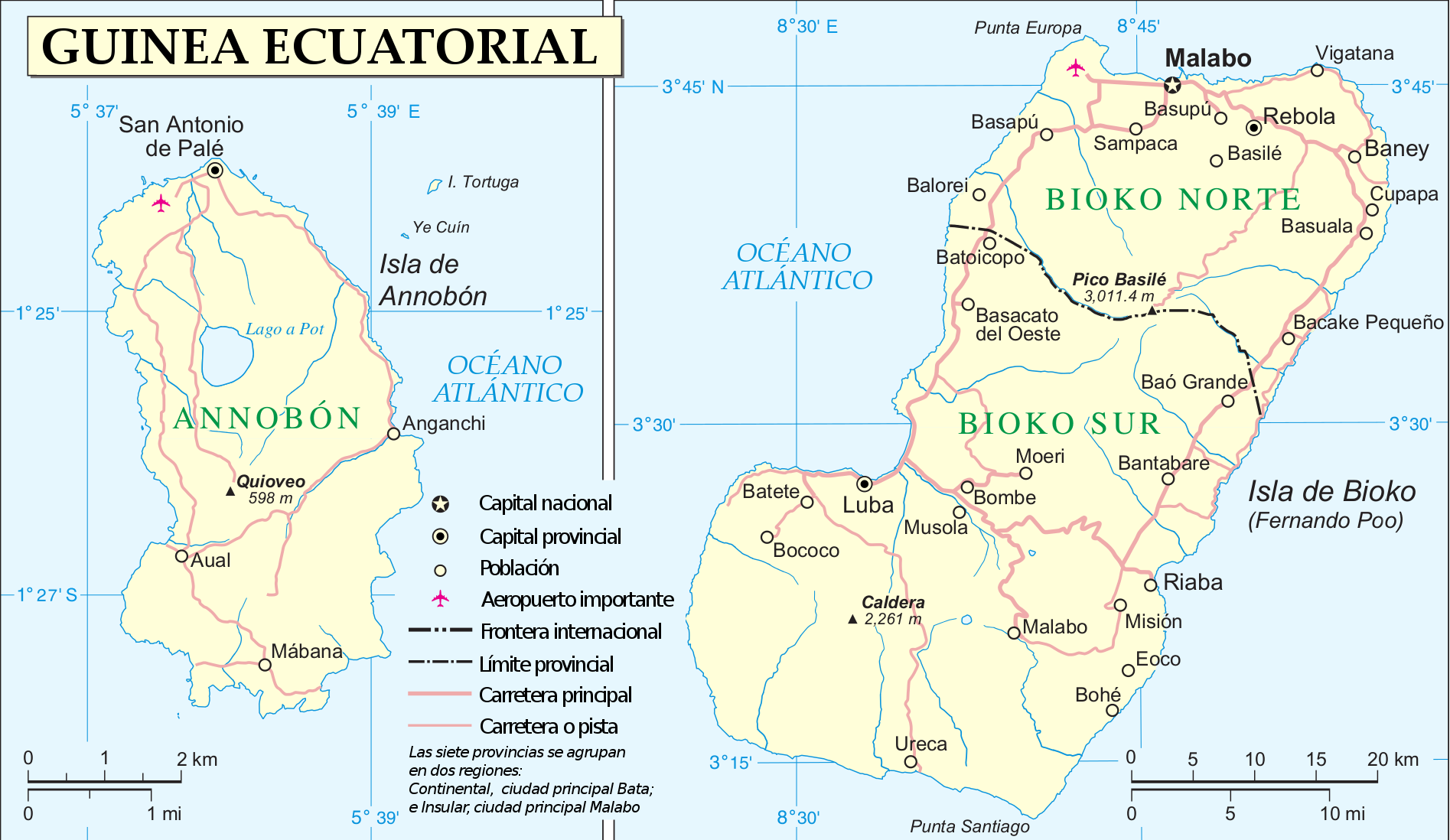 Maps of Annobon and Bioko islands, (Equatorial Guinea) in Spanish